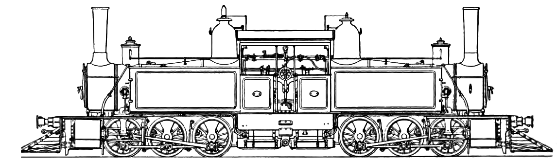 0-6-6-0 Fairlie built for service in Mexico